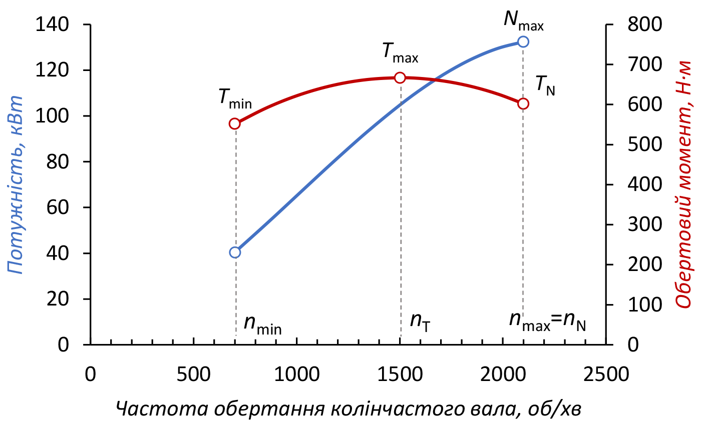 Power and torque curves of diesel engine (180 h. p.)